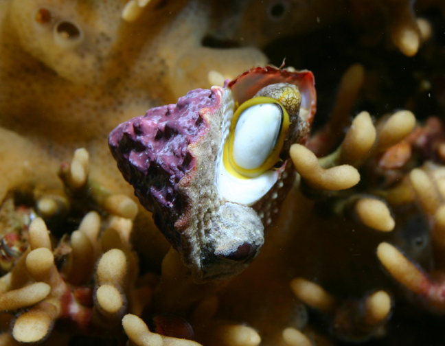 The operculum of the red turban snail Pomaulax gibberosus (Dillwyn, 1817) (synonym: Lithopoma gibberosa) is calcareous and smooth, unlike the operculum of the similar wavy turban snail Megastraea undosa, formerly known as Astraea undosa and Lithopoma undosa. Lithopoma gibberosa is typical of central California, while Megastraea undosa is typical of southern California.